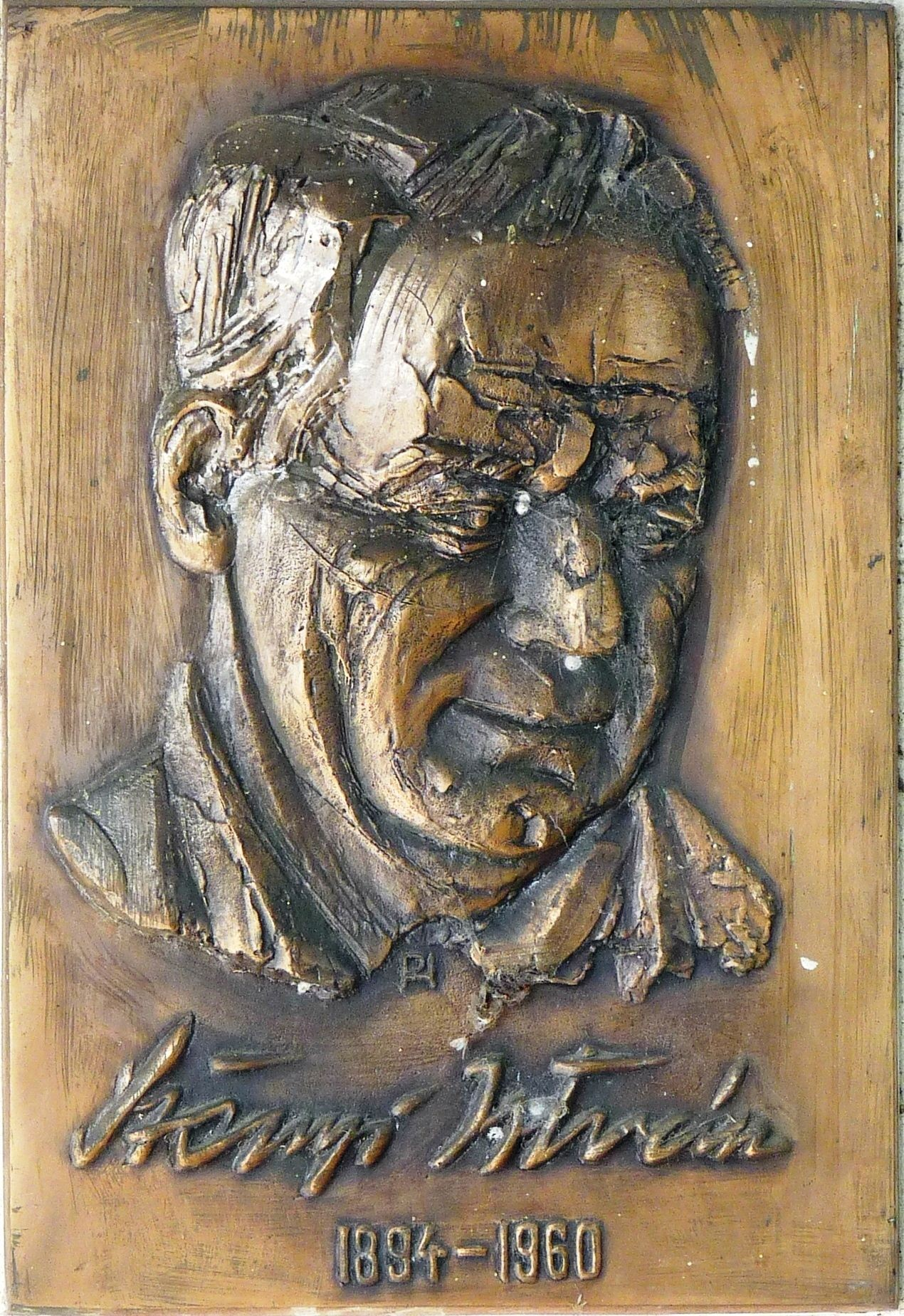 Commemorative plaque to Mr. István Szőnyi (1894–1960) Hungarian painter and graphic artist. It is affixed to the front of the post office in Csepel, whose fresco was painted by the artist in 1957. Author of the bronz relief is Mrs. Katalin Pálffy. (Budapest, District XXI, Szent Imre Square Nr 22).